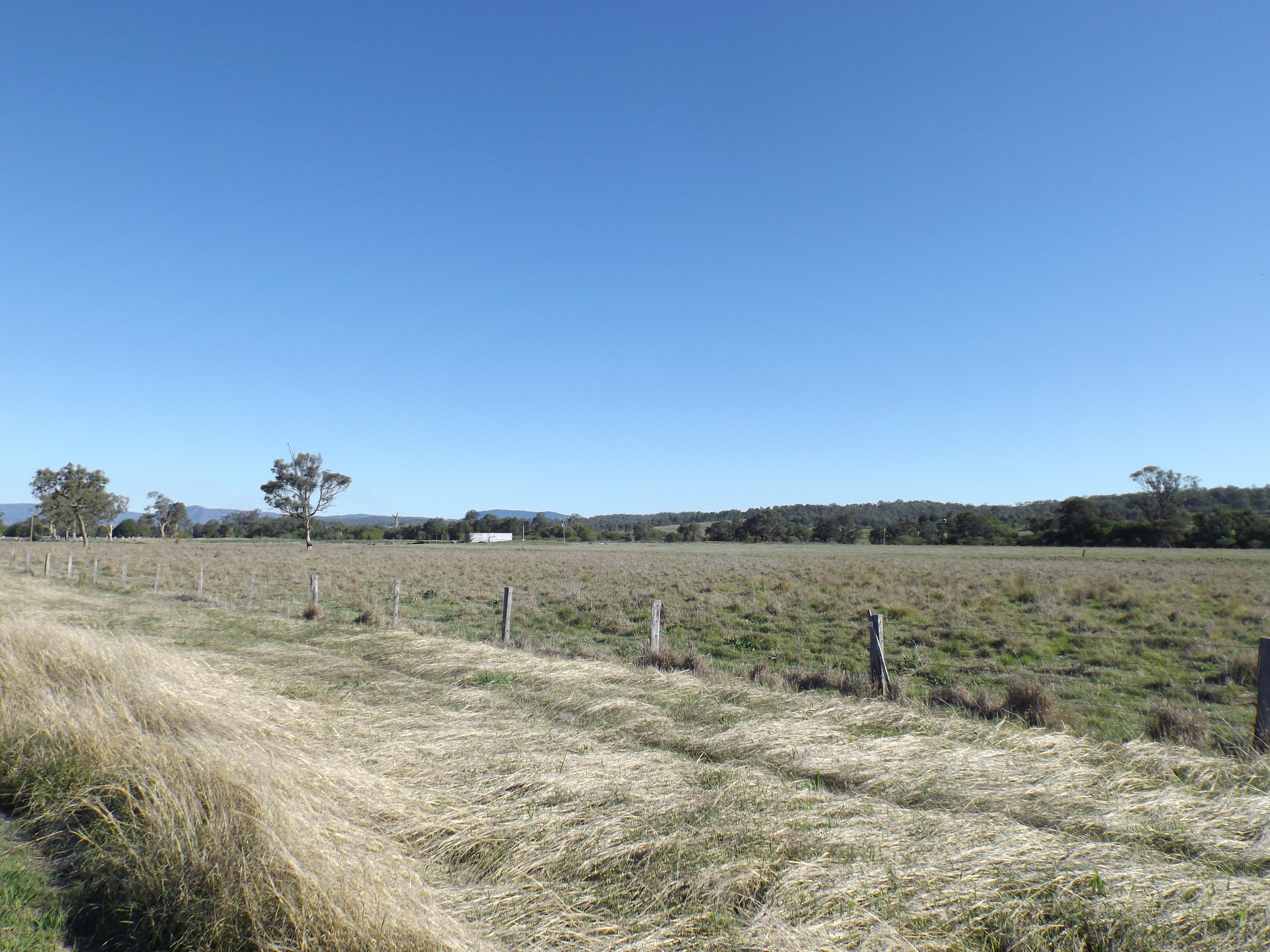 Photo of paddocks at Tabooba, Scenic Rim Region, Queensland, Australia.